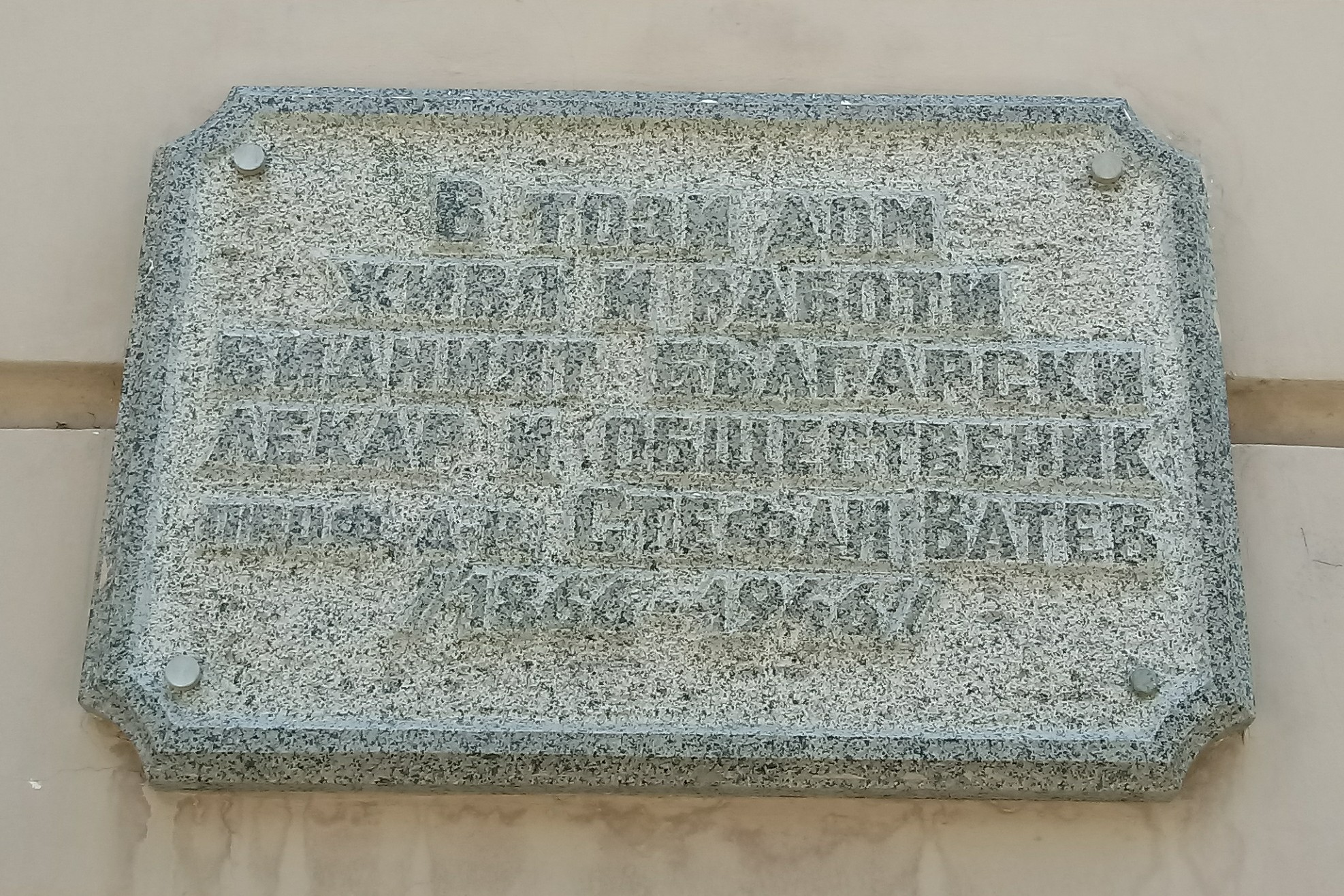 Stefan Vatev memorial plaque, 1 Kuzman Shapkarev Str., Sofia